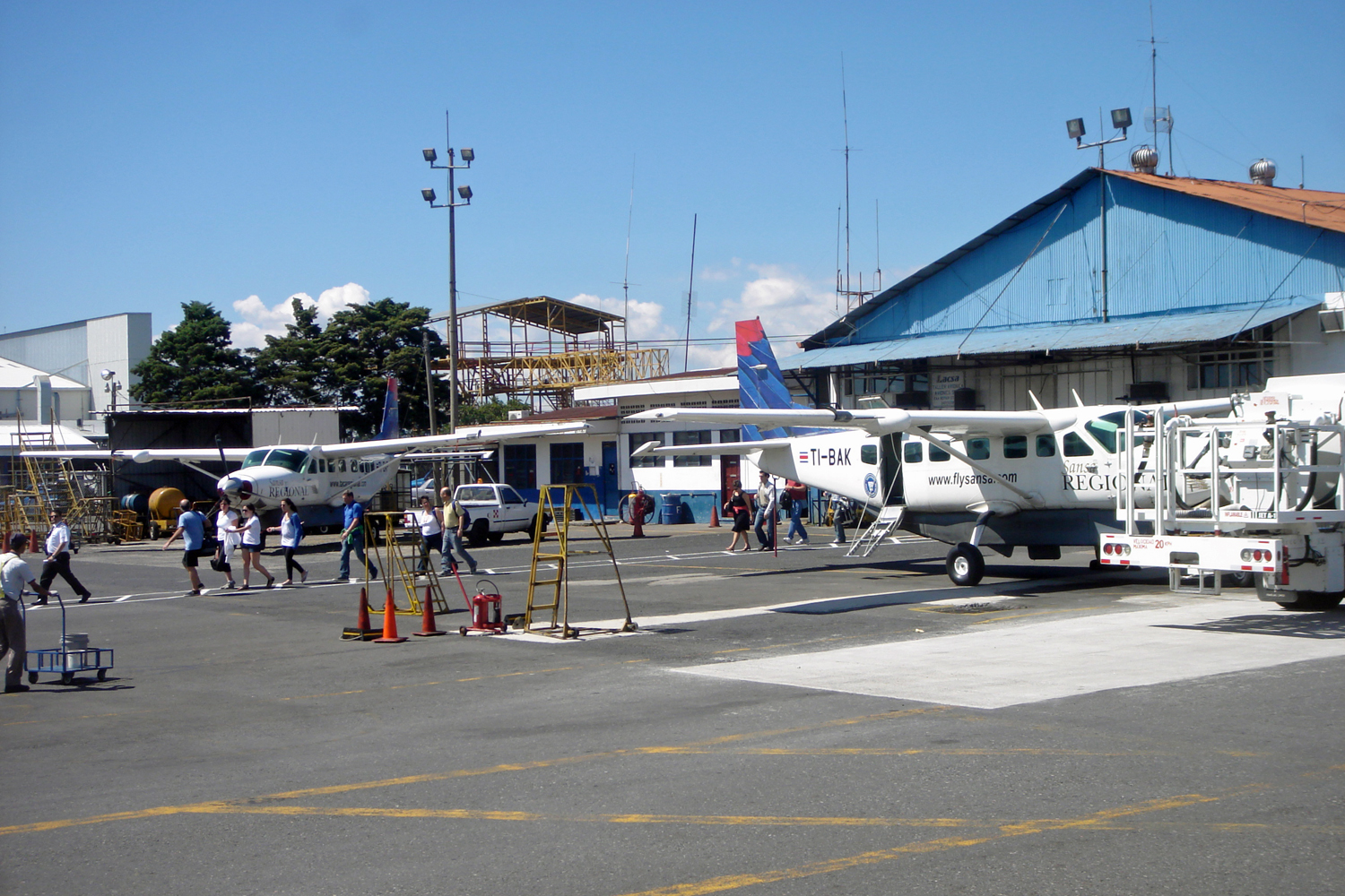 SANSA terminal at Juan Santamaria International Airport, Costa Rica